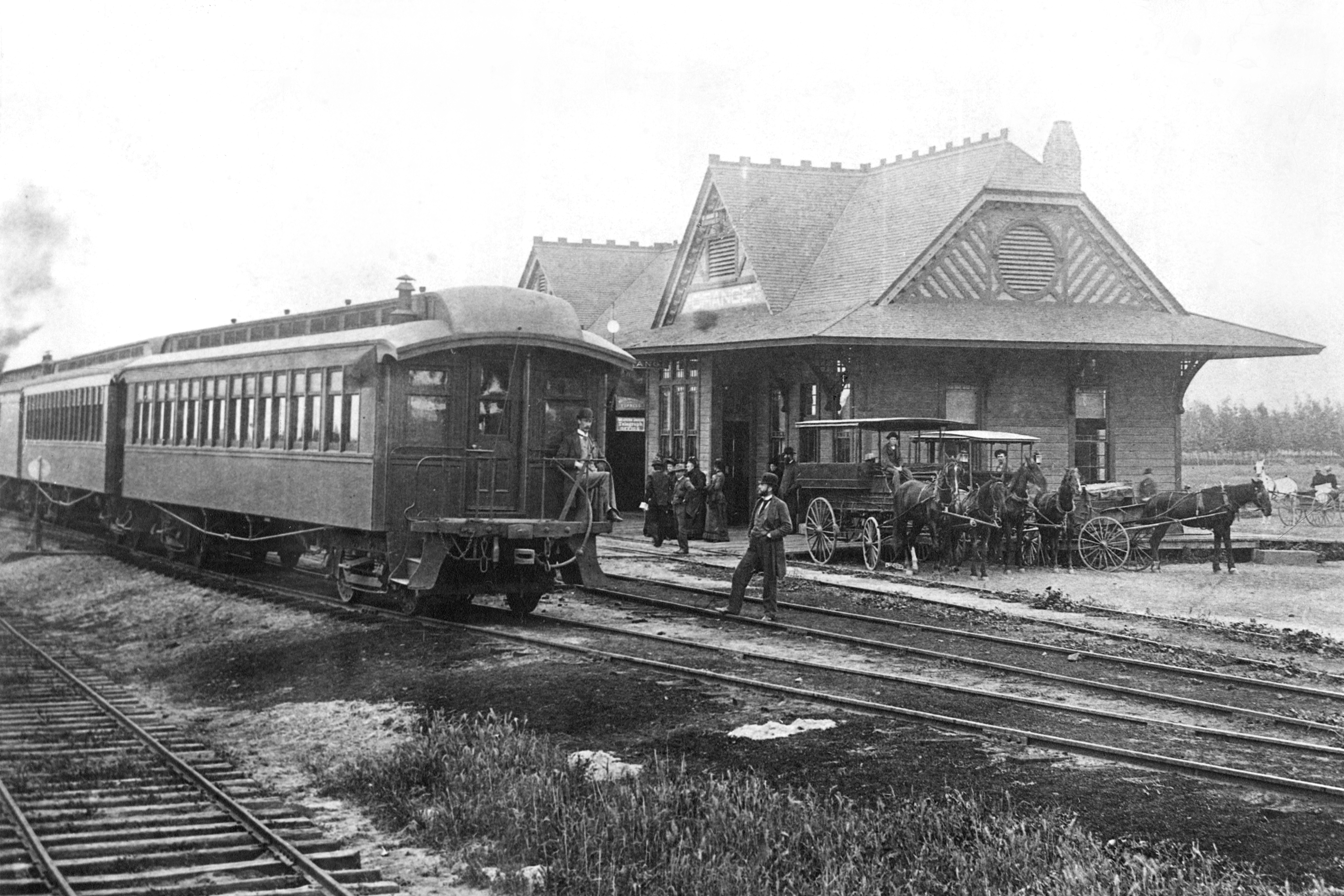 Santa Fe Depot, Orange, California, 1891. Outside the first Santa Fe Depot in Orange, California, April 23, 1891. The address for the depot was 186 North Atchinson Street, off of West Chapman Avenue. Image shows view of the special train of President Bejamin Harrison leaving the depot, looking east from the railroad tracks. Several people, horse-drawn wagons and buggys are around the station. A group of women stand in front of the telegraph office in background center. Original photo mount printed with "HARDESTY, Photographer ORANGE, CAL."